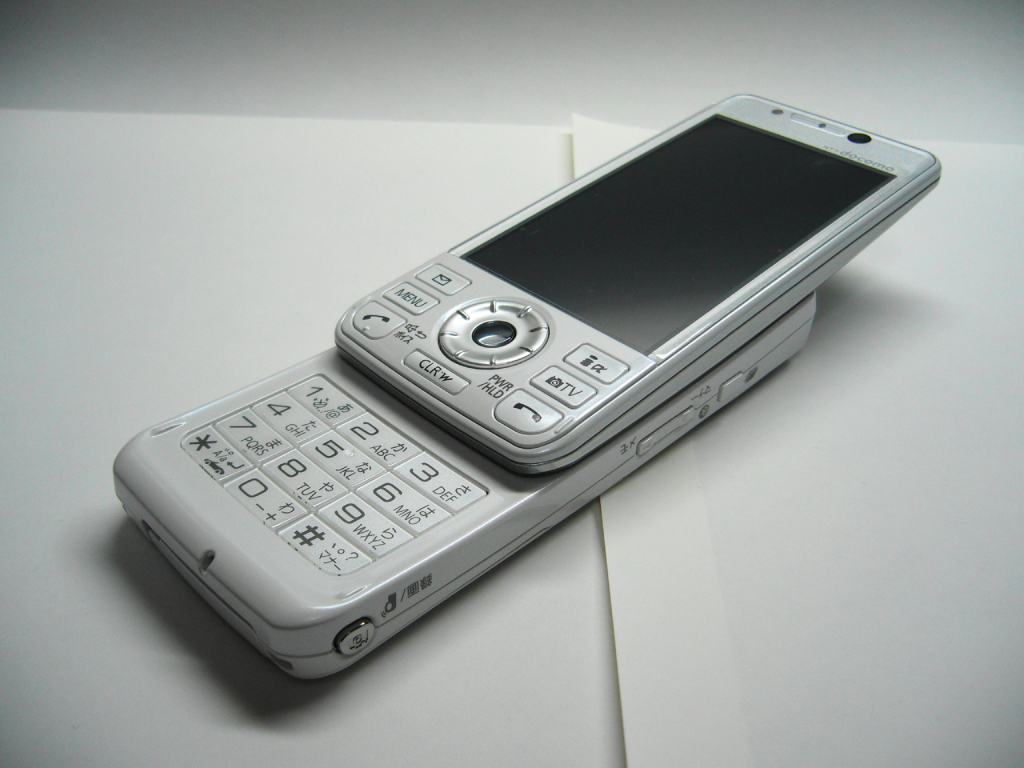 NTT docomo's Mobile Phone "FOMA P-02A"